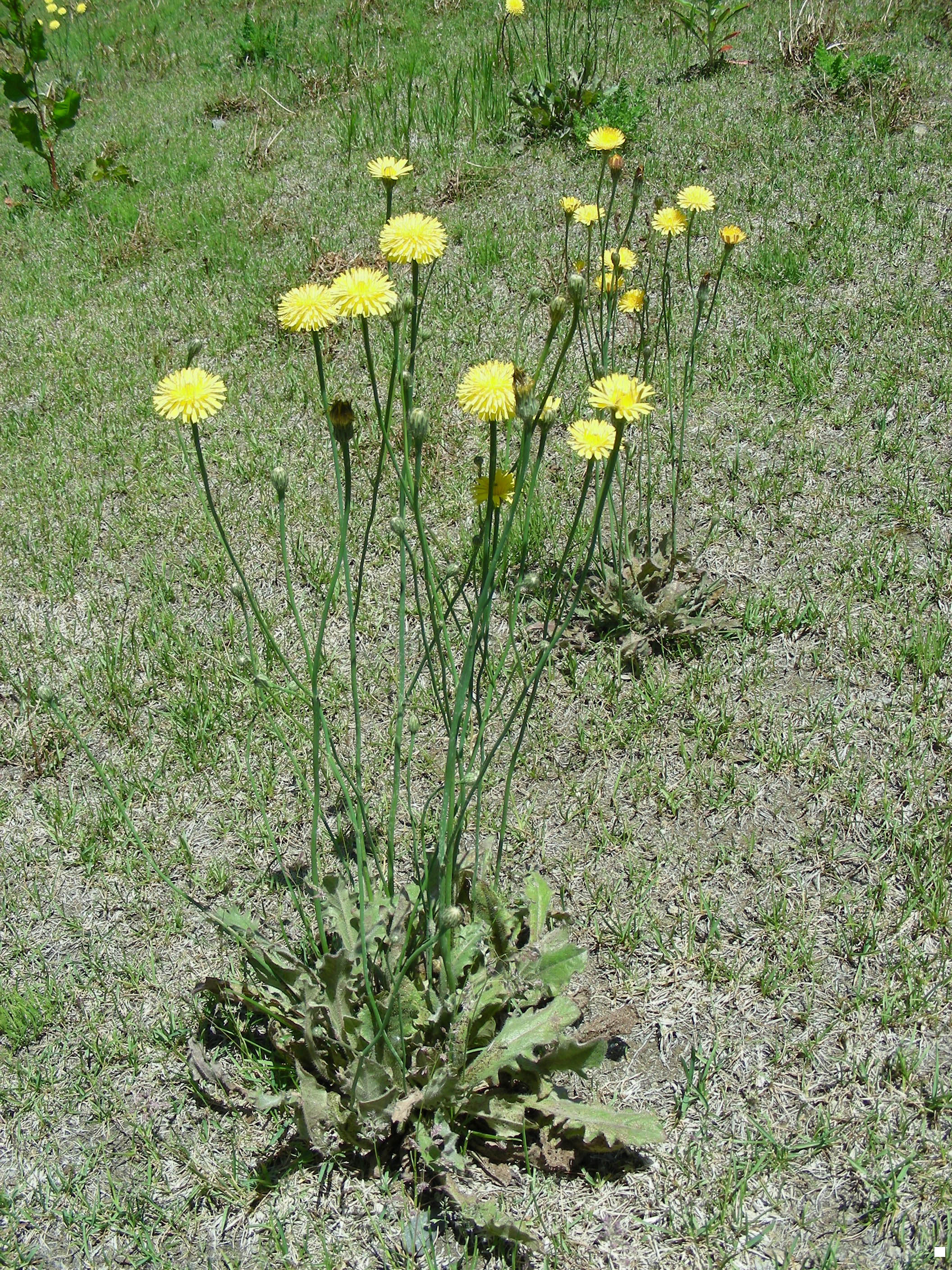 Hypochaeris radicata, Hokkaido prefecture, Japan.